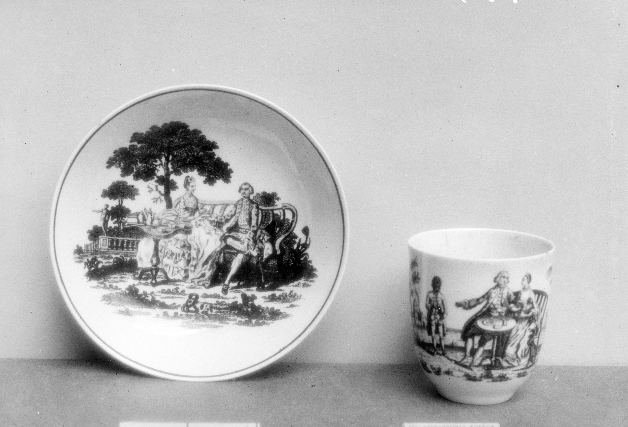 British (American market); Cup and saucer; Ceramics